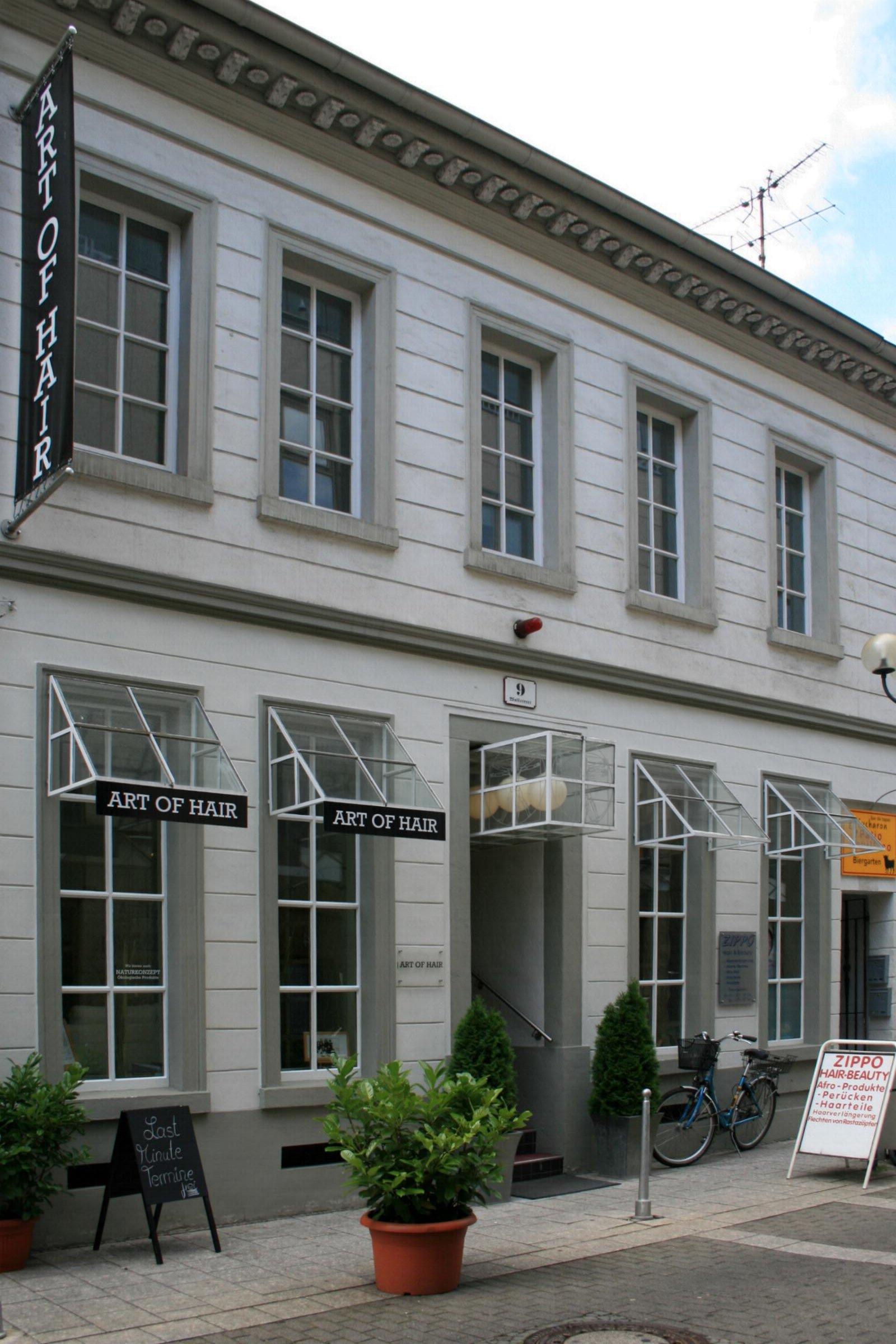 Cultural heritage monument No. W 001 in Mönchengladbach